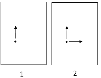 drawing microsoft